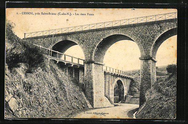 The pont des courses in Saint-Brieuc,(Britanny, France) the higher is for the Compagnie des Chemins de Fer de l'Ouest, the lower for the Chemins de Fer des Côtes-du-Nord, two former national and local railway companies.